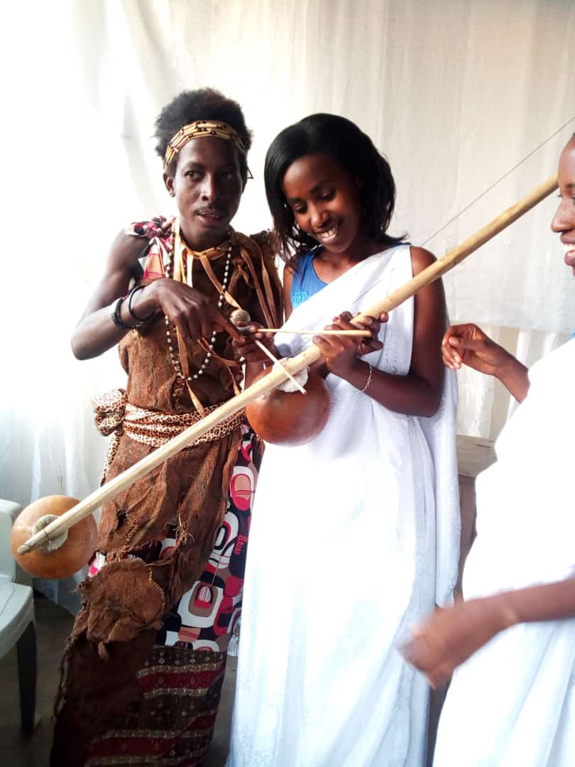 This picture show a traditional instrument of music called "umuduri" This is an image with the theme "Play" from: Burundi